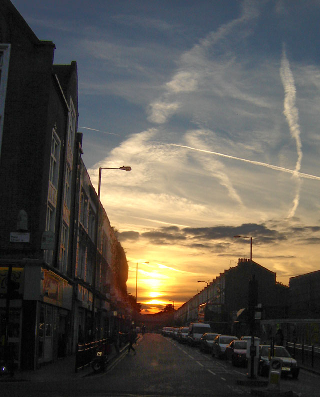 Sunset over Graham Road, Hackney, London, 19 September 2005. Photographer: Fin Fahey